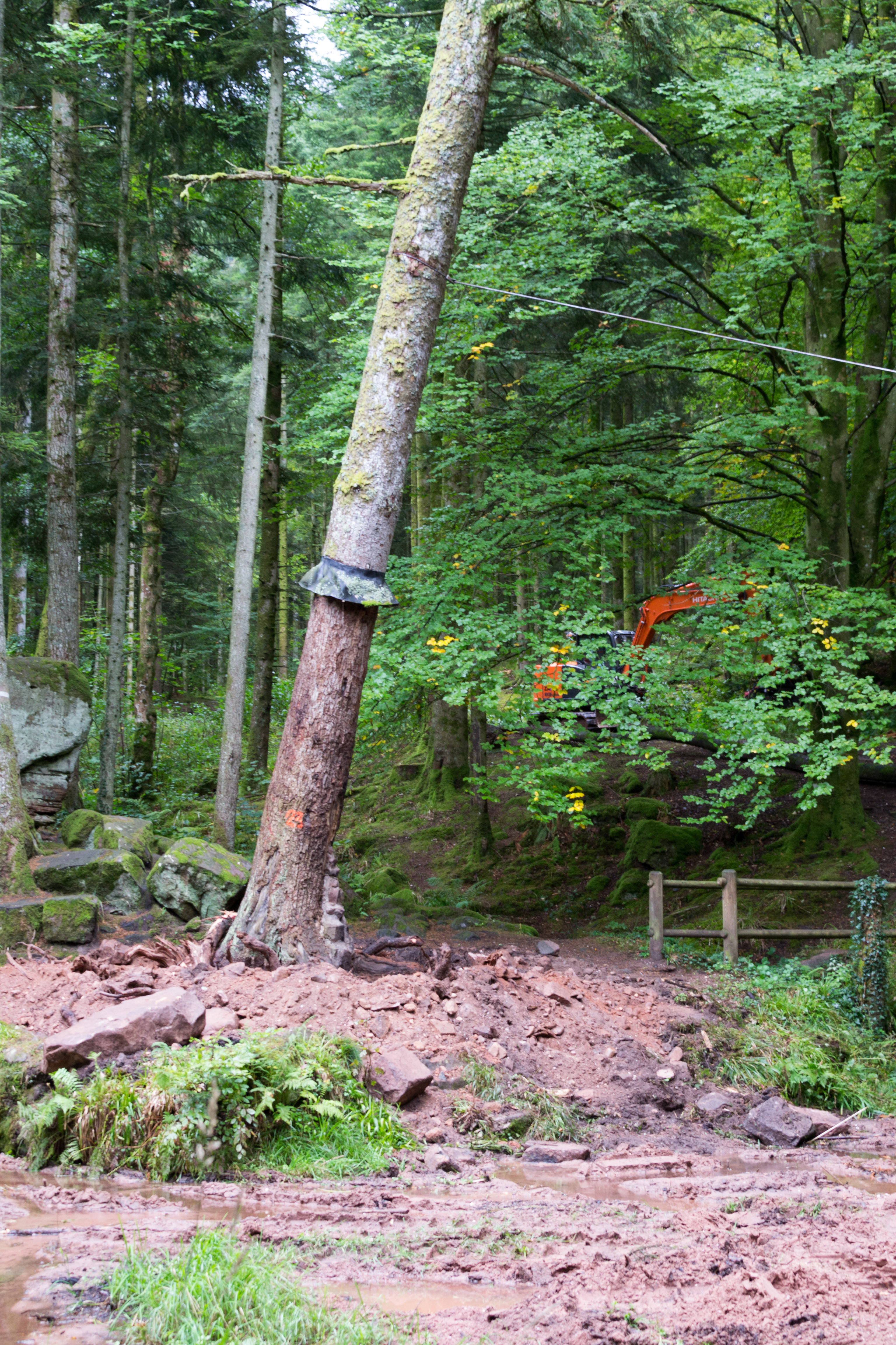 The stump had to be removed before building the new kiosk; furthermore, the materials used to try a reinforcement of the trunk prevented using a chainsaw. It was consequently decided to uproot it, to fell it without chainsaw while leveraging the stump to uproot it.